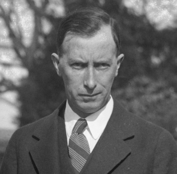 Closeup of Photo titled "Reps. L.M. Black, A.L. Somers and Frank Oliver of N.Y."